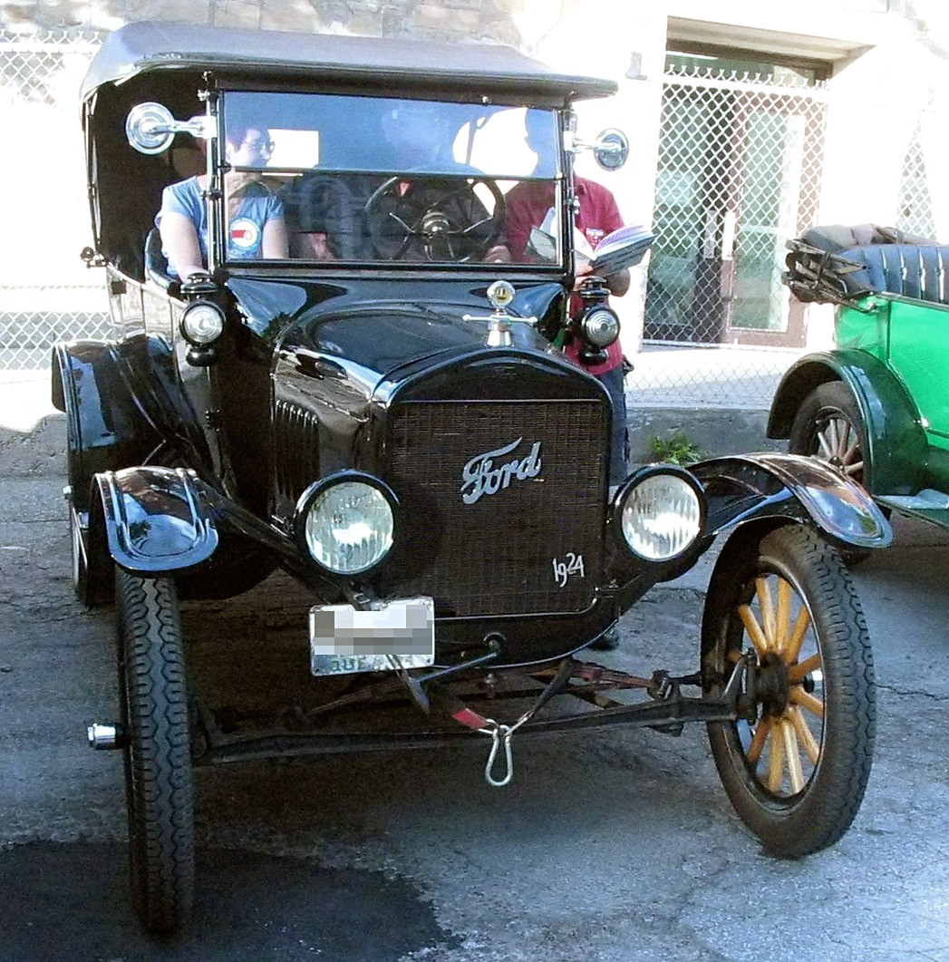 1924 Ford Model T photographed in Laval, Quebec, Canada at the Auto classique Ste-Rose.